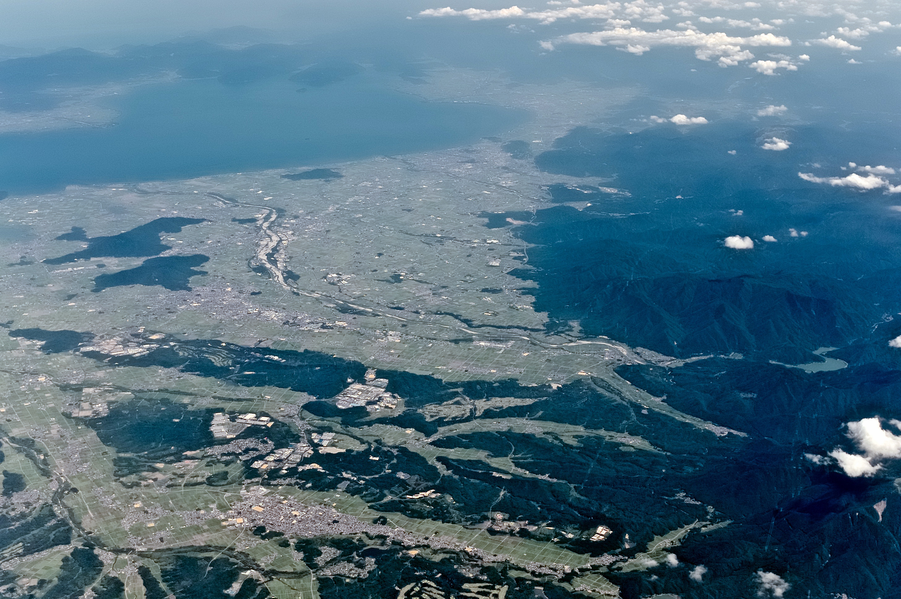 This image was taken from an aircraft of JL234, showing the entire view of the alluvial fan of the Echigawa River.